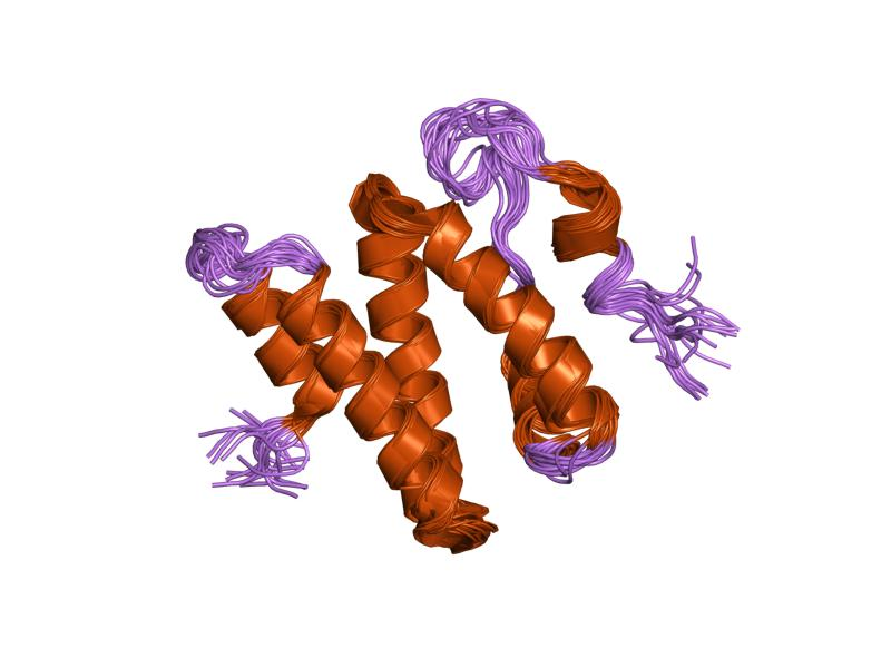 Cartoon representation of the molecular structure of protein registered with 1q2z code.